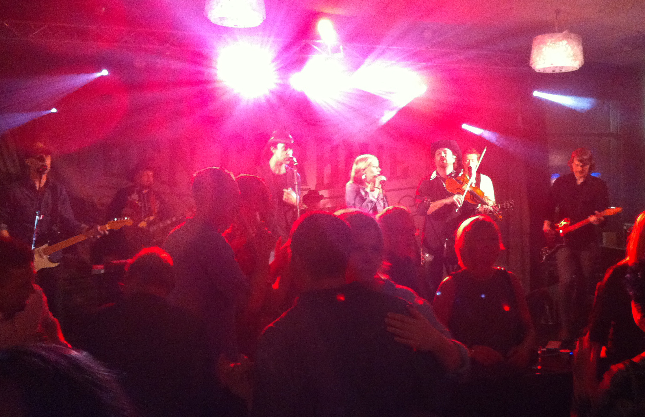 Swedish Country & Western band Ben Carbine & The 18-wheelers playing at Statt in Skellefteå 7 maj 2016.